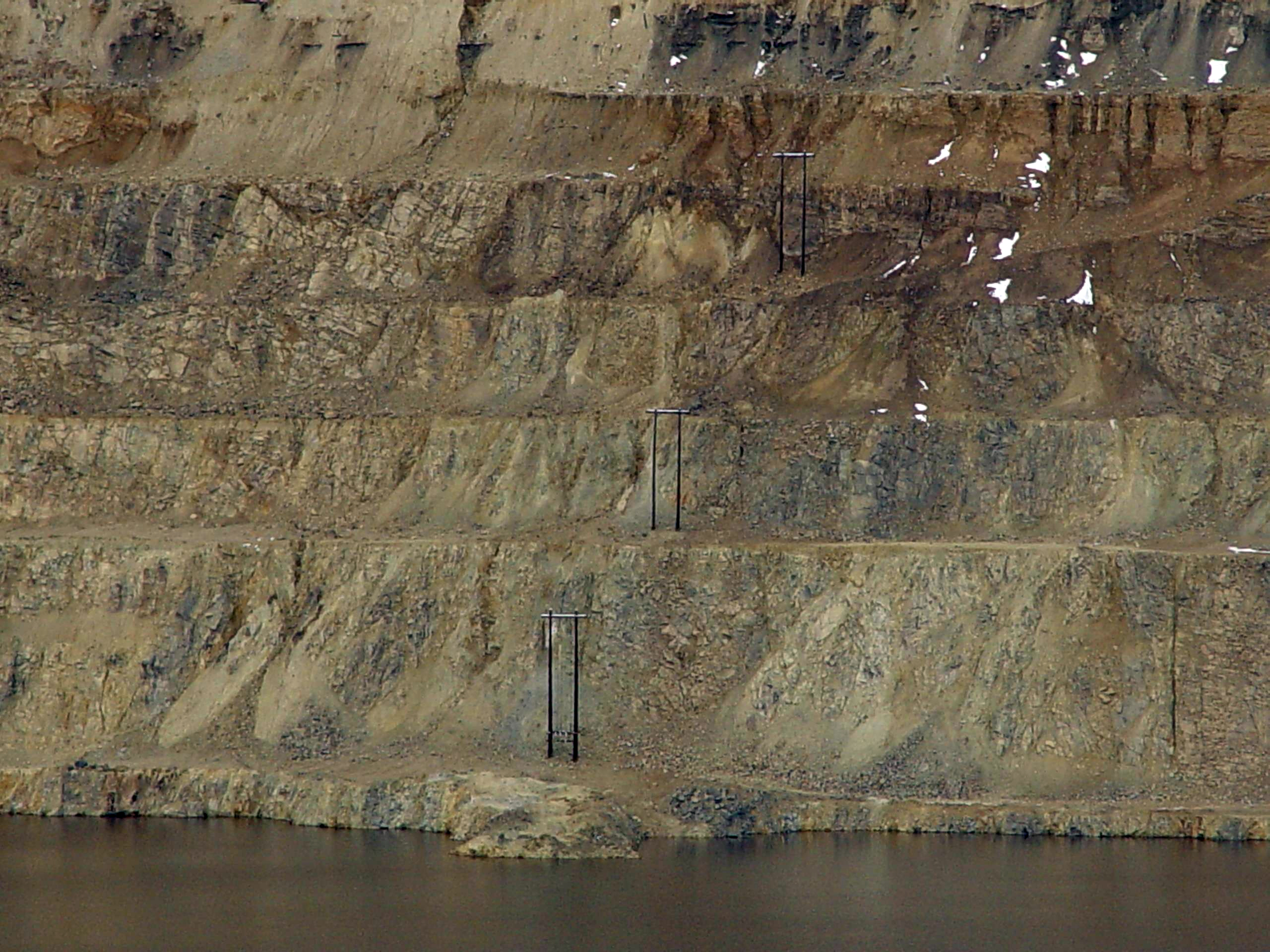 Shot of telephone poles used to show scale of the flooded Berkeley Open Pit mine site, with respect to the photo 'Composite fish eye view of the Berkeley Pit in Butte, Montana' (Butte_MT_Berkeley_Pit_April_2005_Composite_Fisheye_View.jpg). The poles are just slightly right of centre in the larger composite fish eye picture of this flooded open pit mine.